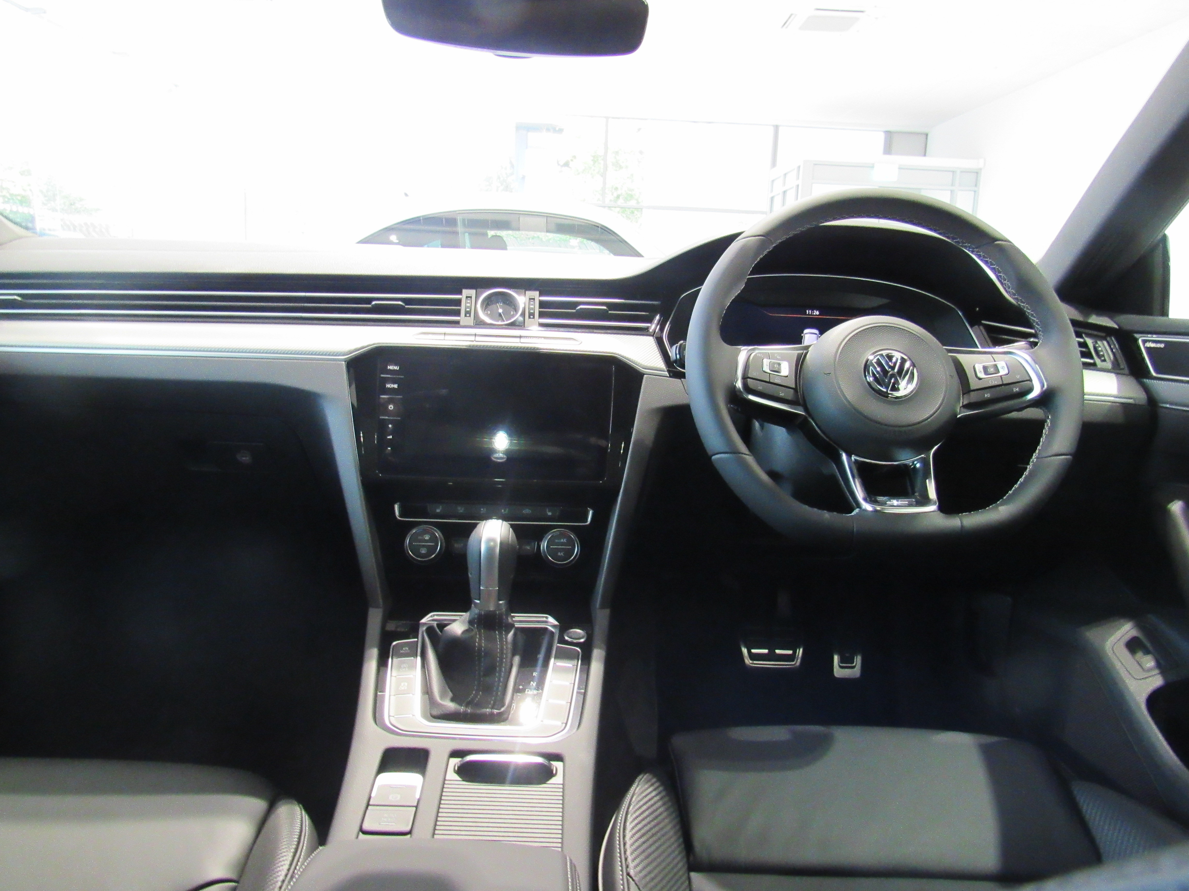 2017 Volkswagen Arteon R-Line BiTDI 2.0 Interior Taken in Listers Volkswagen, Leamington Spa